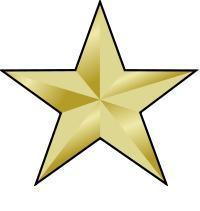 LASD Rank